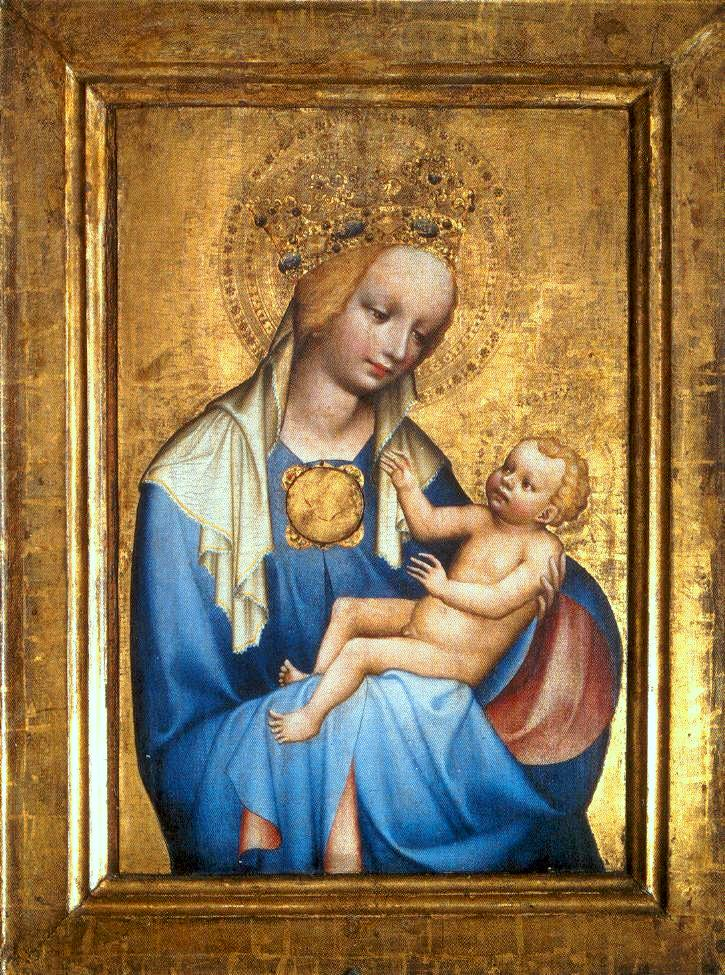 Madonna of Roudnice, Czech republic, 1385-1390, Author: Master of Altar of Trebon.